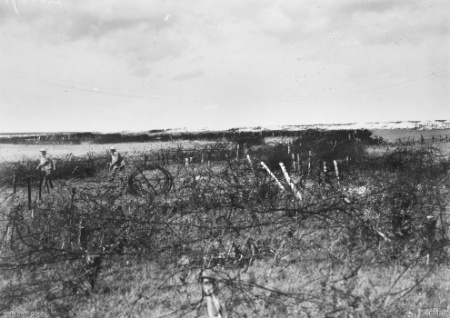 AWM caption : "The dense black wire composing the entanglements which protected the Hindenburg Line at Bellenglise, through which, during a rain storm, the 46th and 14th Battalions advanced on the night of 18/19 September 1918. The wire was so thickly and extensively used that the artillery fire had made very little effect on it. The capture of this position coordinated with that of the remainder of the objectives, and by nightfall on 19 September, the Outer Hindenburg Defences were in British hands. Identified is Private J. Martin, A Company (extreme left)."